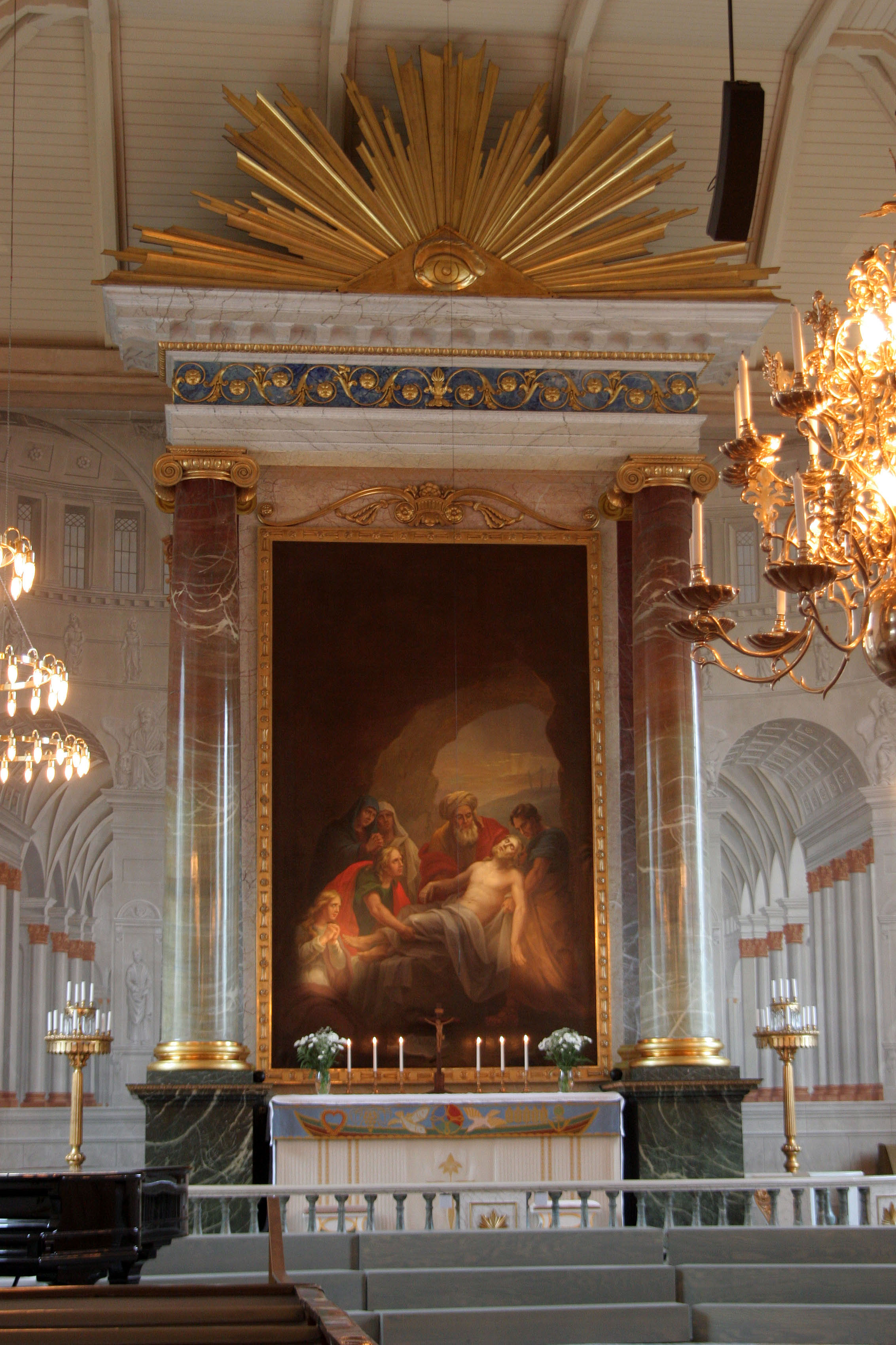 The sanctuary of Carl Gustafs kyrka in Karlshamn, Sweden.